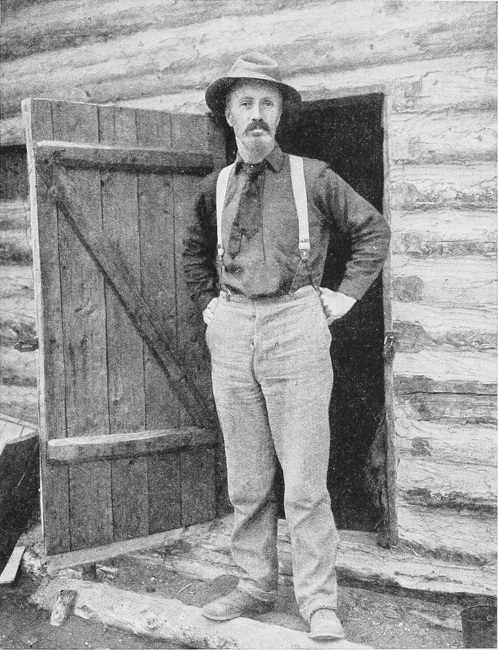 "Tom" Wilson, the "Oldest Inhabitant" of the Kootenai Plains